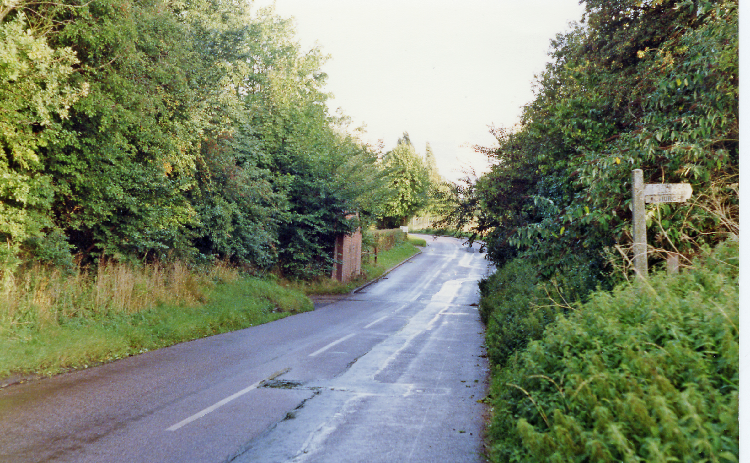 Site of Felsted station. View southward on Station Road past abutments of former bridge of ex-GER Bishops Stortford (to right) - Braintree (to left) line, which closed to passengers 3/3/52, to goods 4/5/64; the station had been on the right.